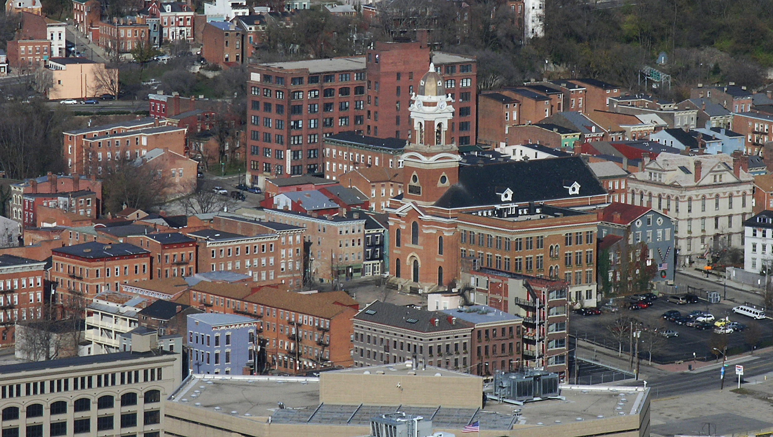 St. Paul Historic district bounded by Pendleton, 12th and Spring Streets. Photo by Greg Hume